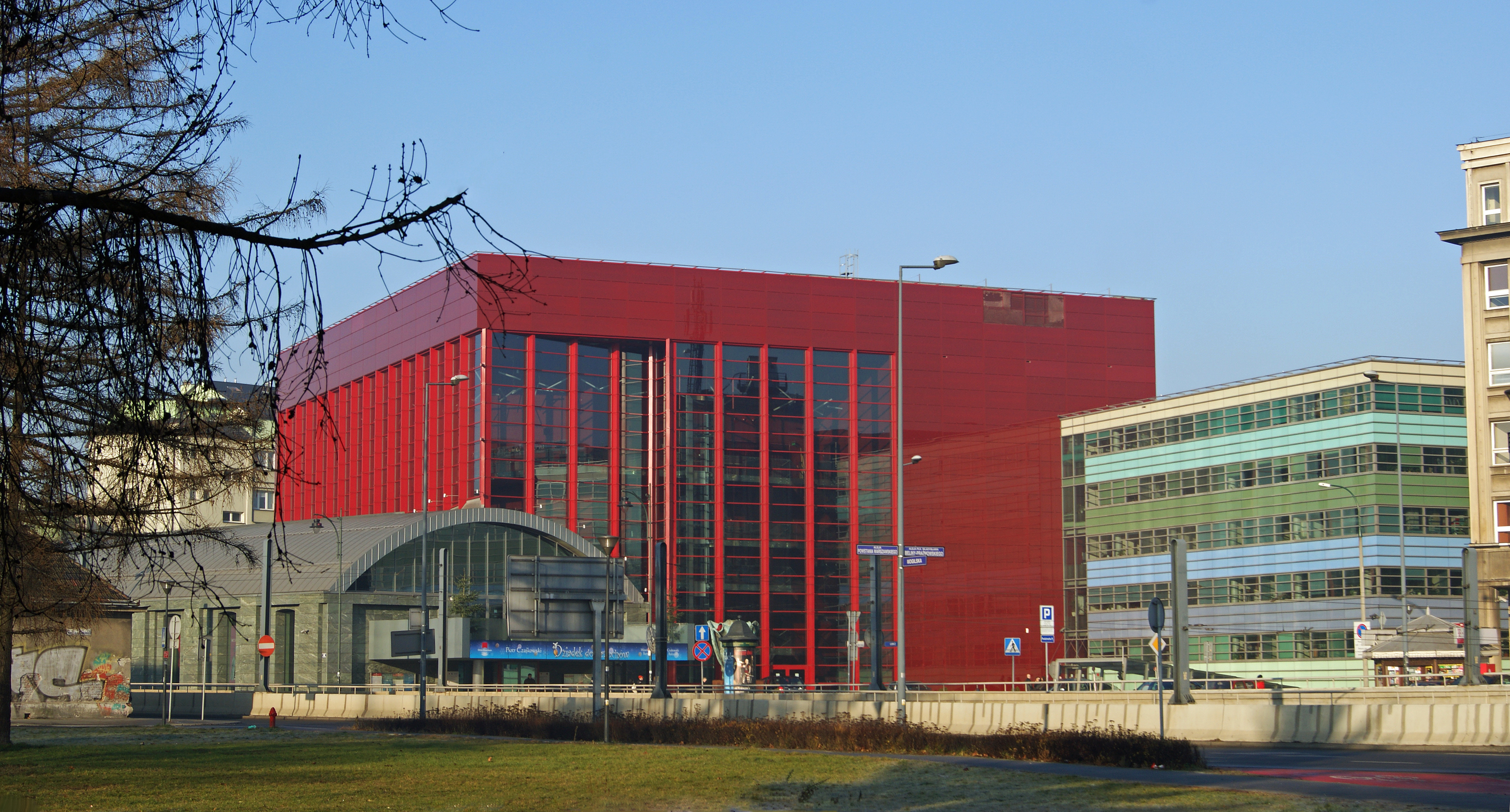 Krakow Opera house, 2008 by arch. Romuald Loegler, 48 Lubicz street, Kraków, Poland